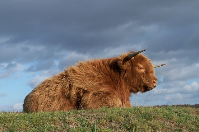 It's not just Birds at the Old Moor Sanctuary ! Highland cow takes a rest on one of the Pool Banks at the RSPB old Moor site.